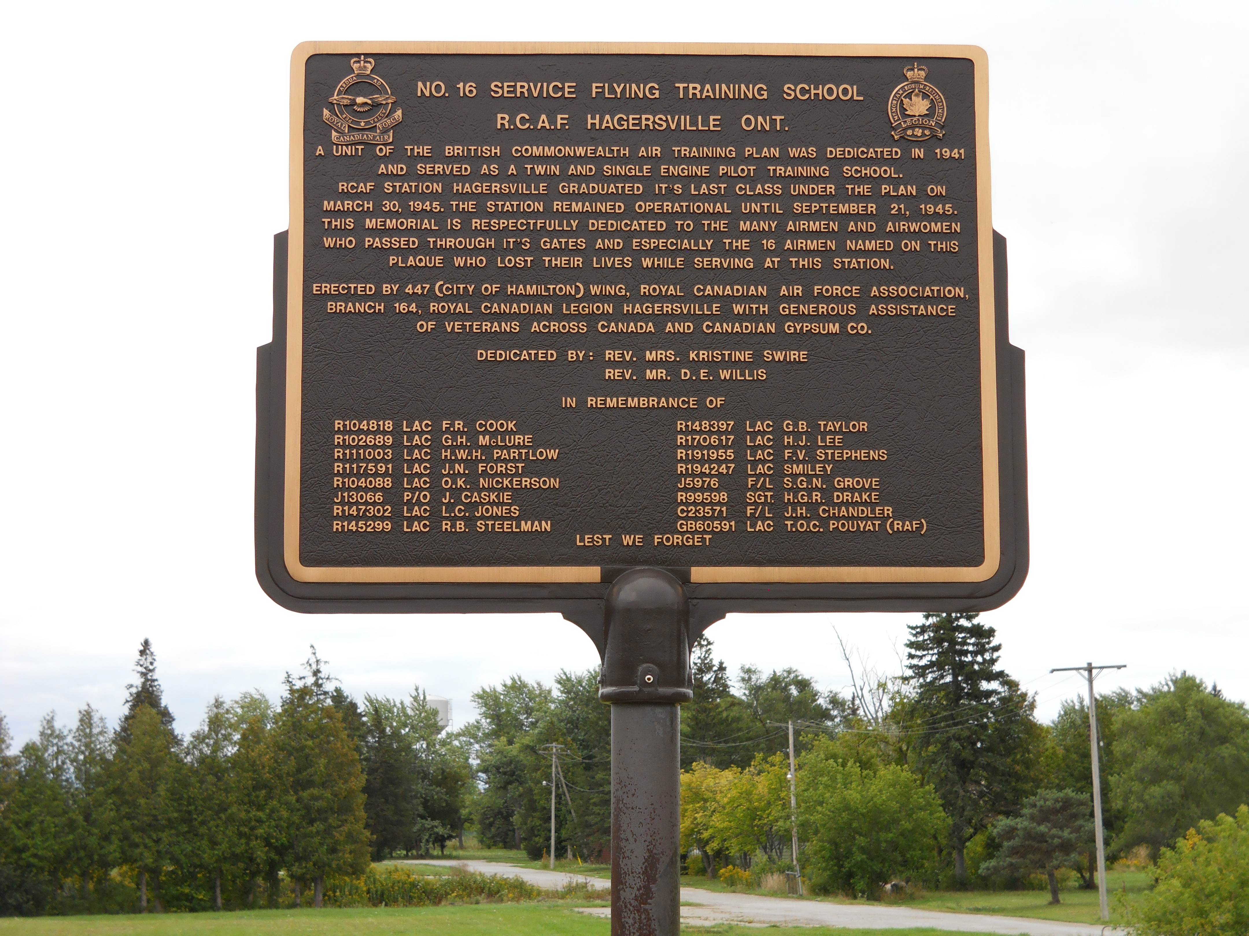 The plaque on Concession 11 west of Hagersville, on the site of RCAF Station Hagersville. The main entrance road to the old airbase is in the background. LAC Pouyat of the Royal Air Force is buried at St. Paul's Glanford Anglican Church, Glanford, near Mount Hope, Ontario.